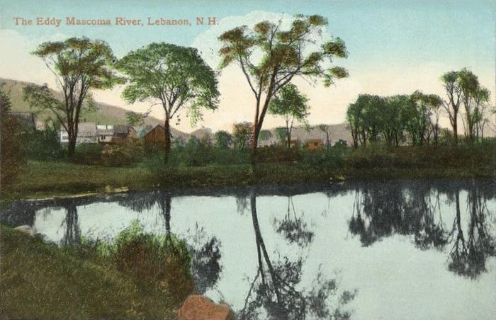 The Eddy, Mascoma River, Lebanon, NH; from a 1909 postcard.